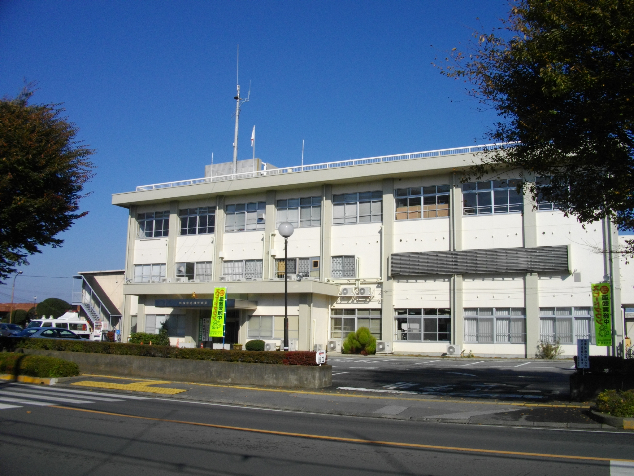 Moka Police Station